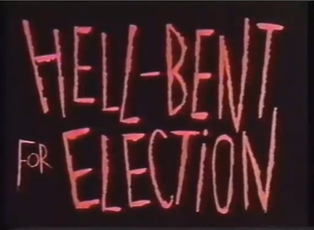 Title card for the 1944 cartoon short "Hell-Bent for Election" (source : ).